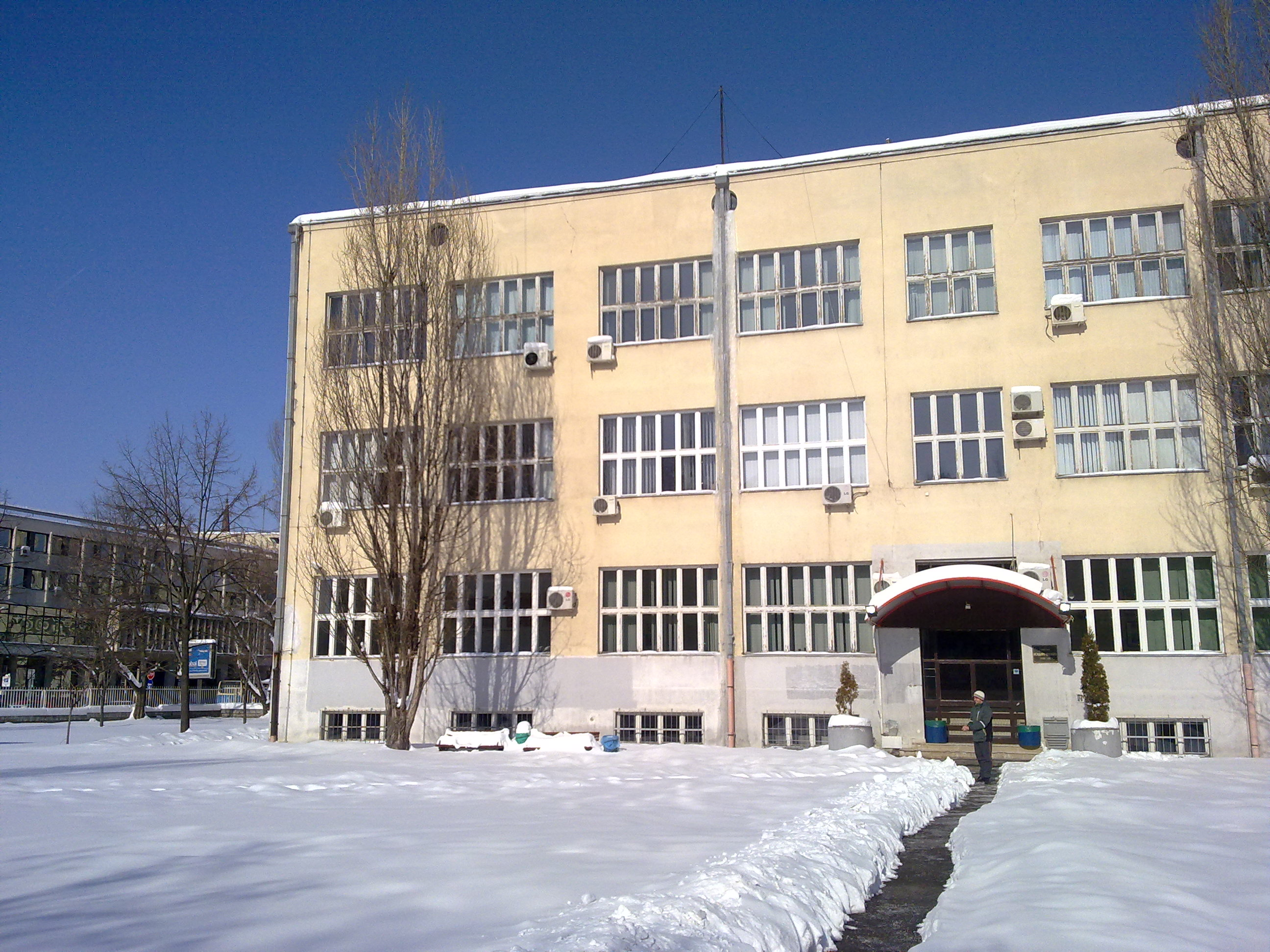 Gymnasium Isidora Sekulic in Novi Sad during winter.